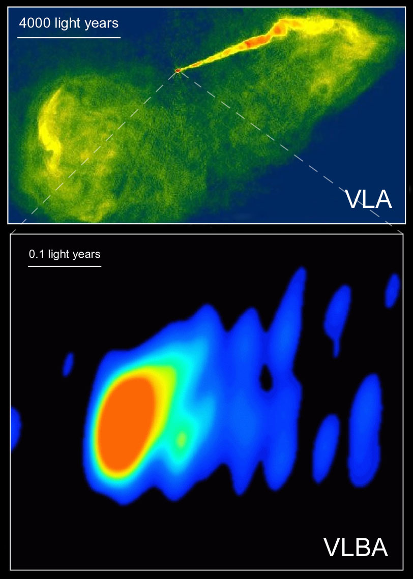 A radio image of Messier 87 (M87), a giant elliptical galaxy in the Virgo Cluster by the Very Large Array (VLA), and an image of the center section by a Very Long Baseline Array (VLBA) consisting of antennas in the US, Germany, Italy, Finland, Sweden and Spain. The jet of particles is suspected to be powered by a black hole in the center of the galaxy. This work is in the public domain in the United States because it is a work prepared by an officer or employee of the United States Government as part of that person’s official duties under the terms of Title 17, Chapter 1, Section 105 of the US Code. Note: This only applies to original works of the Federal Government and not to the work of any individual U.S. state, territory, commonwealth, county, municipality, or any other subdivision. This template also does not apply to postage stamp designs published by the United States Postal Service since 1978. (See § 313.6(C)(1) of Compendium of U.S. Copyright Office Practices). It also does not apply to certain US coins; see The US Mint Terms of Use. This file has been identified as being free of known restrictions under copyright law, including all related and neighboring rights. Images are from [1] and have been edited by uploader. Credit: NASA, National Radio Astronomy Observatory/National Science Foundation, John Biretta (STScI/JHU), and Associated Universities, Inc.